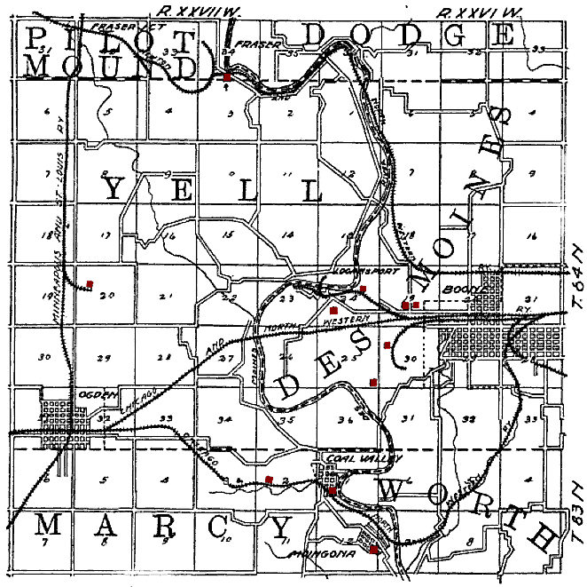 Original caption: "Figure 14. Map giving location of principal mines in Boone county." Mines have been tinted red by the uploader. The towns shown are Boone, Ogden, Moingona and Coal Valley (now abandoned). The railroads shown on the map are: Chicago and Northwestern Railway, Minneapolis and St. Louis Railway, and Newton and Northwestern Railroad.